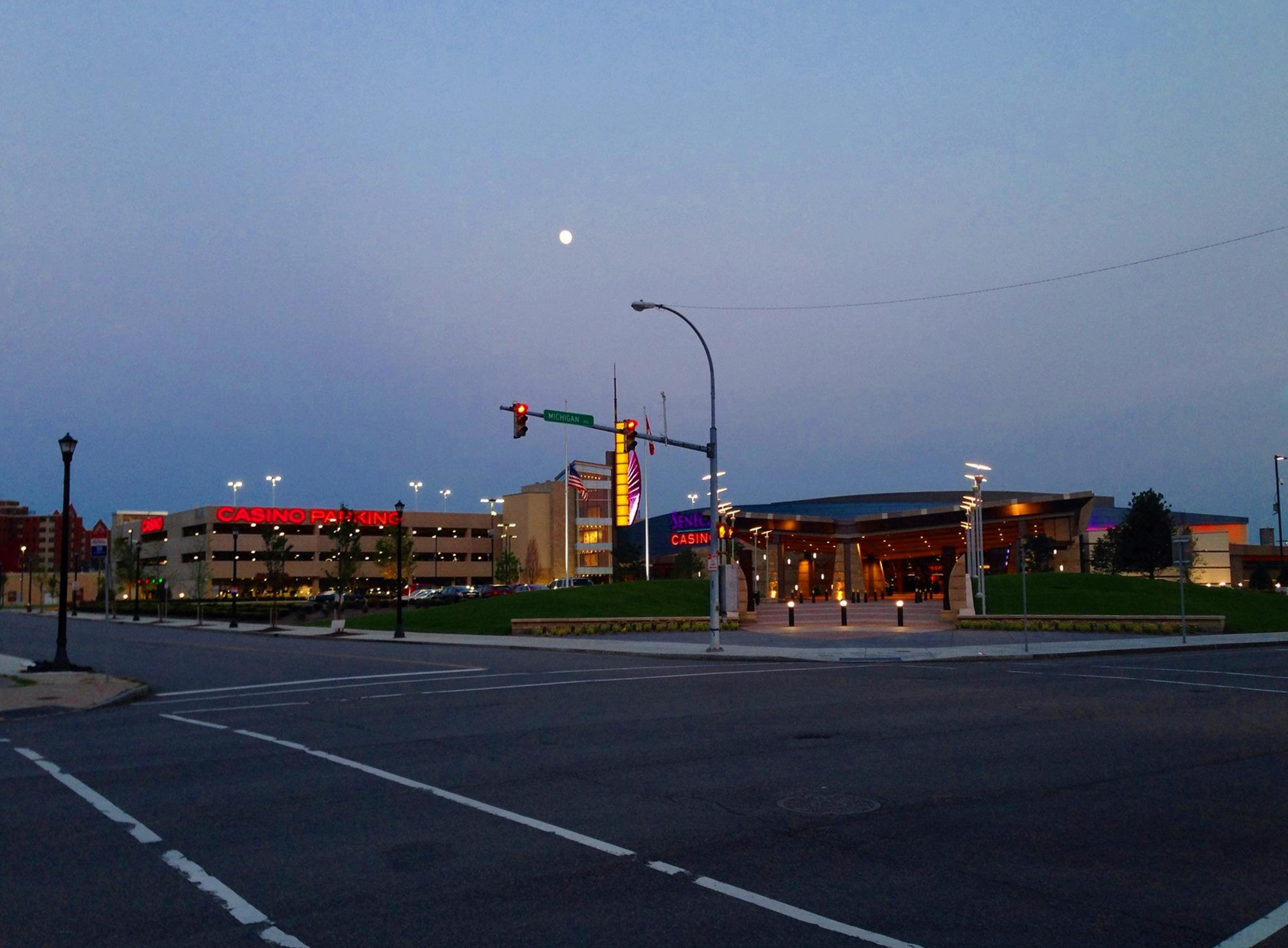 With 800 slot machines and 20 table games on site, the Seneca Buffalo Creek Casino brings a little bit of Las Vegas-style neon glitz to the outer edge of Buffalo's Cobblestone District.